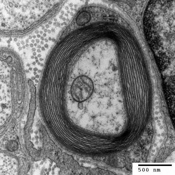 Transmission electron micrograph of a myelinated axon. The myelin layer (concentric) surrounds the axon of a neurone, showing cytoplasmathic organs inside. Generated and deposited into the public domain by the Electron Microscopy Facility at Trinity College.